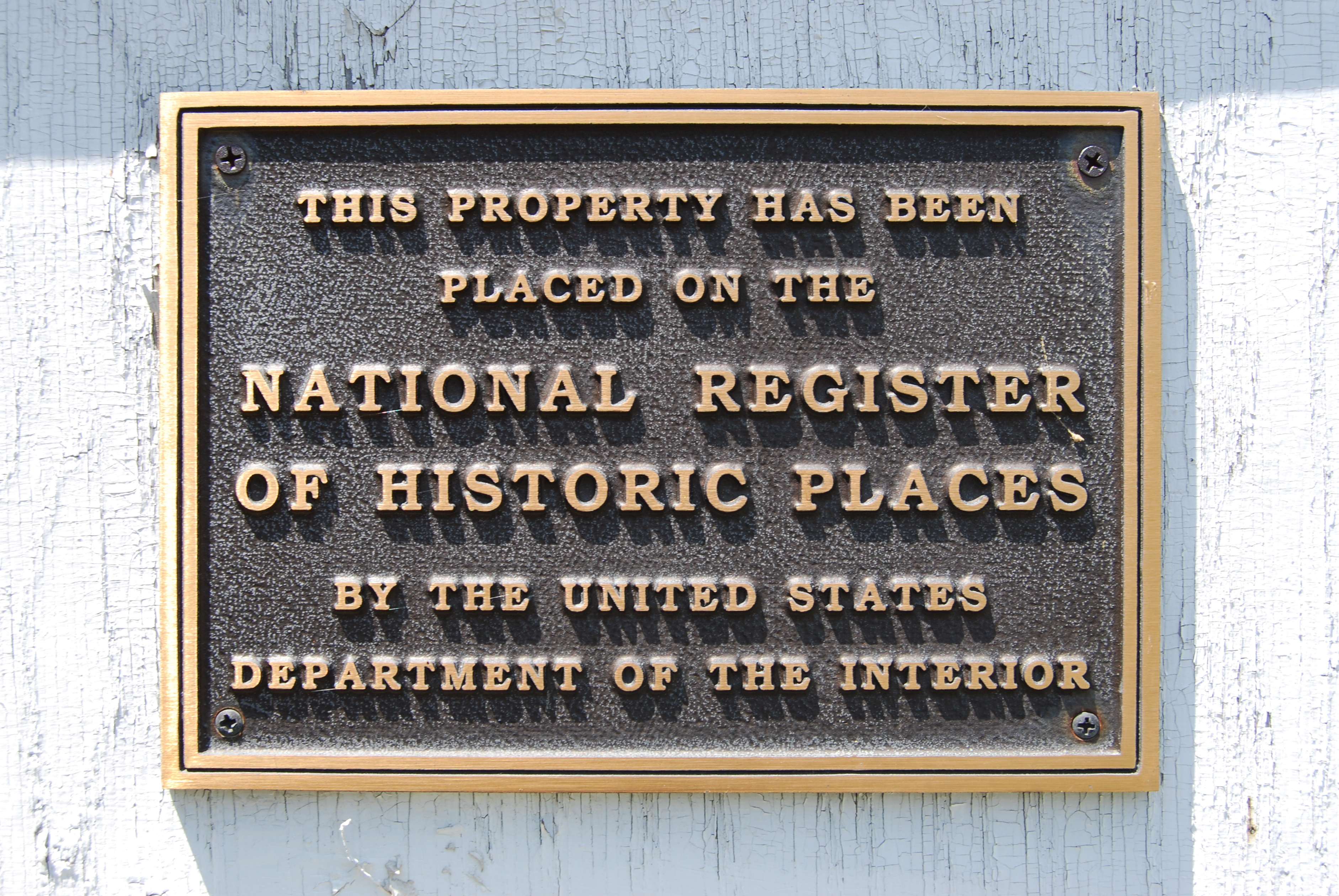 Plaque commemorating the addition of the Garfield School in Brunswick, New York, United States to the National Register of Historic Places.